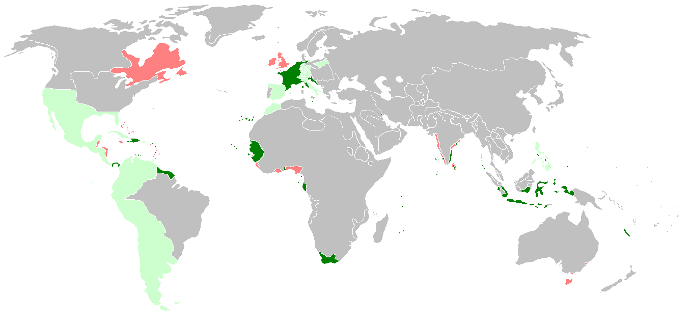 French and Britisch Empire 1812 Britain French Empire French satellite states